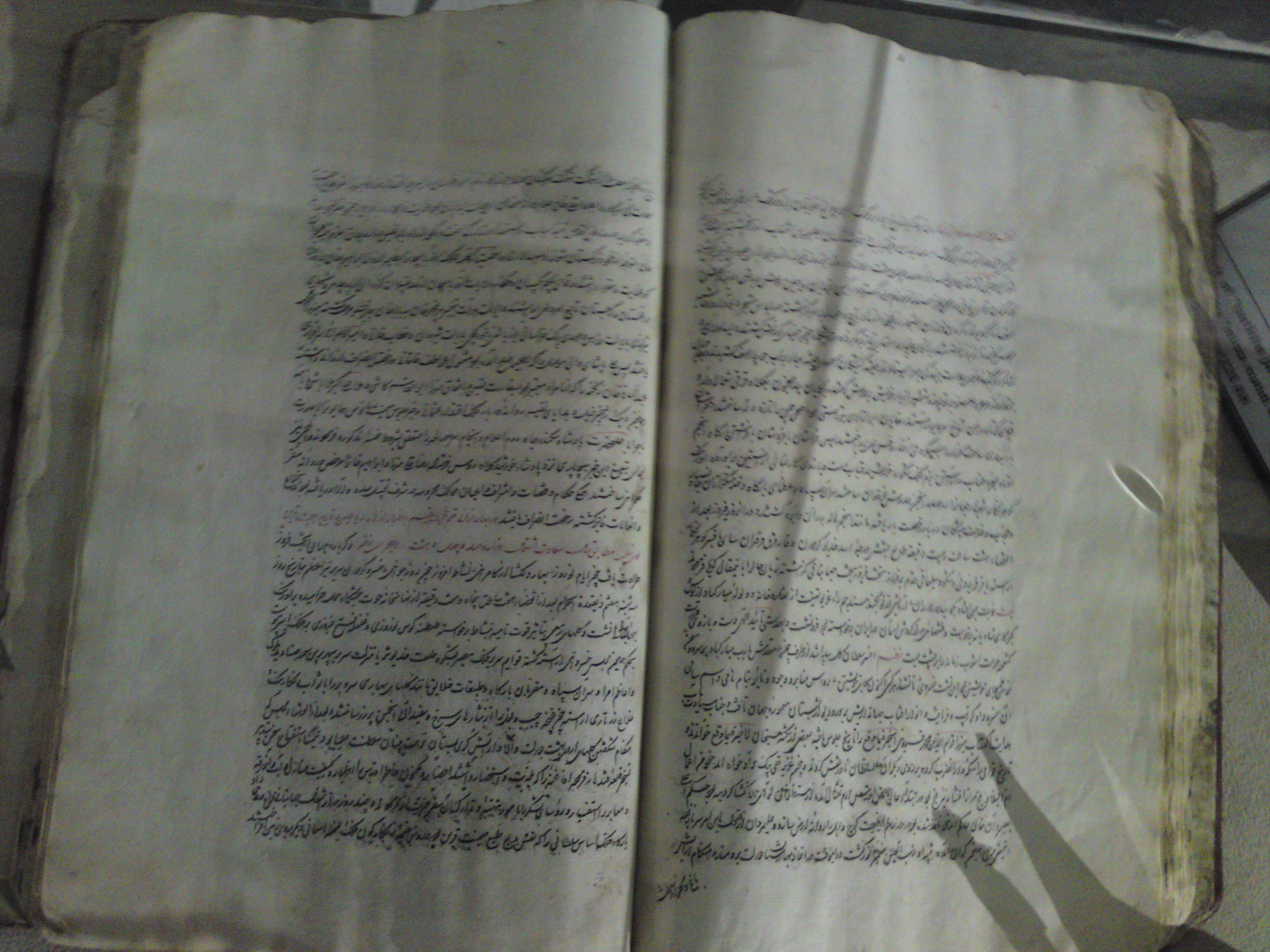 Jahangoshaye naderi